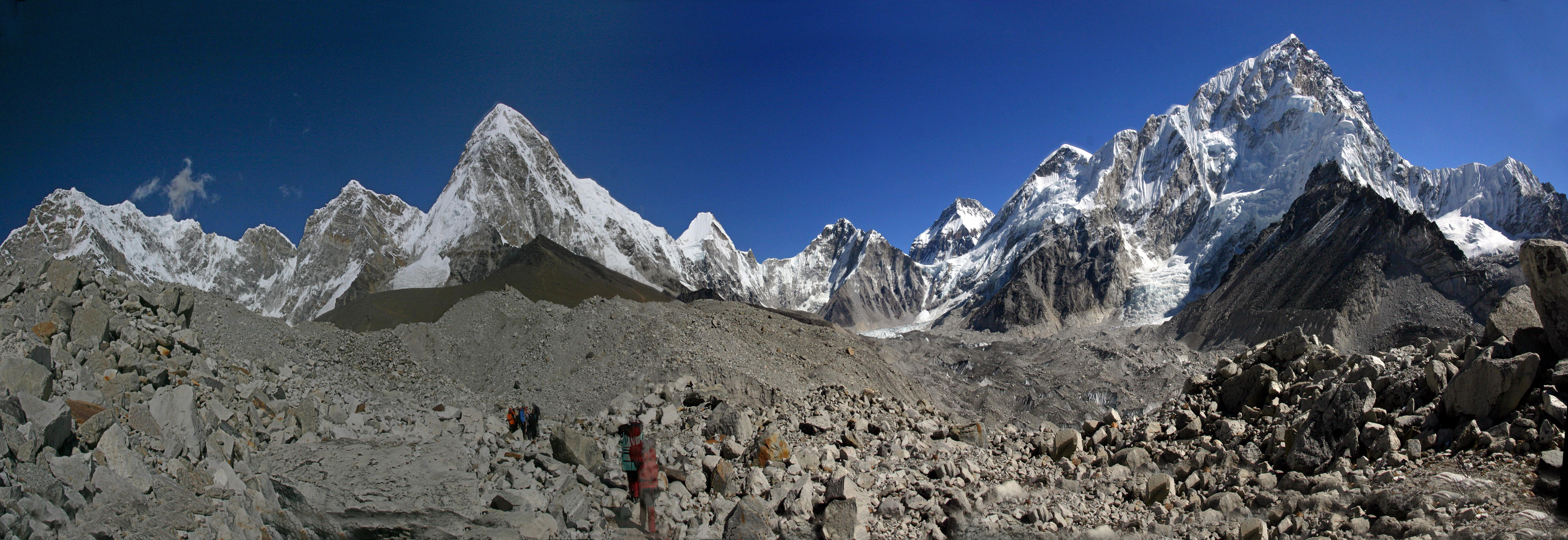 From Lobuche to Gorak Shep